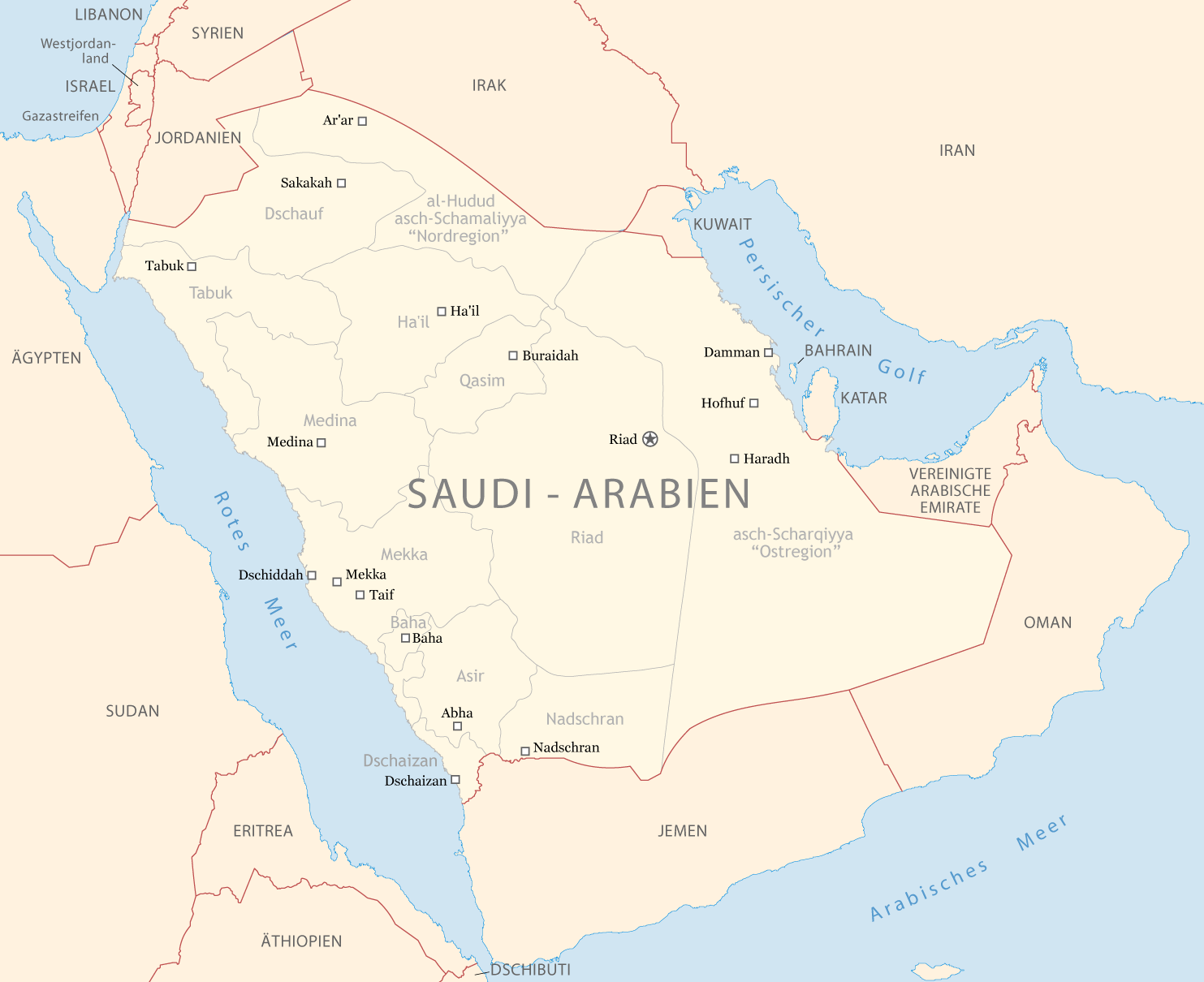 Map of Saudi Arabia